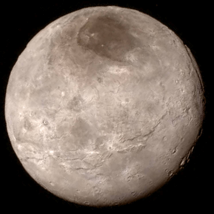 Charon, taken by New Horizons on 13 July 2015 from a distance of 466 000 kilometers